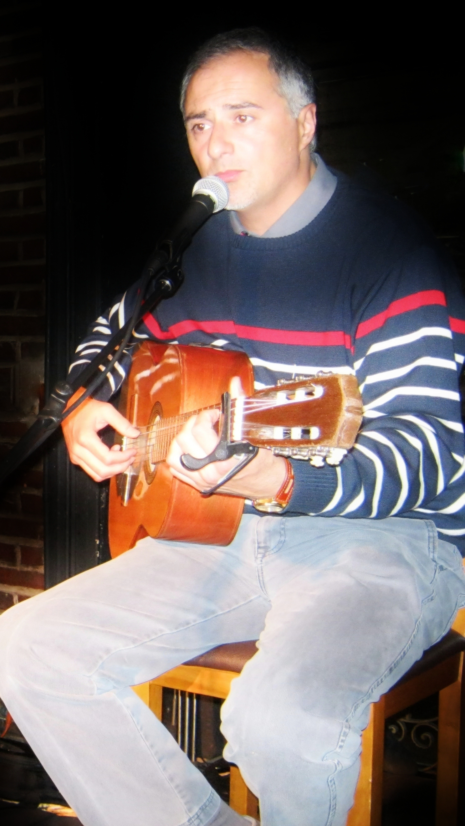 Eduardo Waghorn en Valparaiso